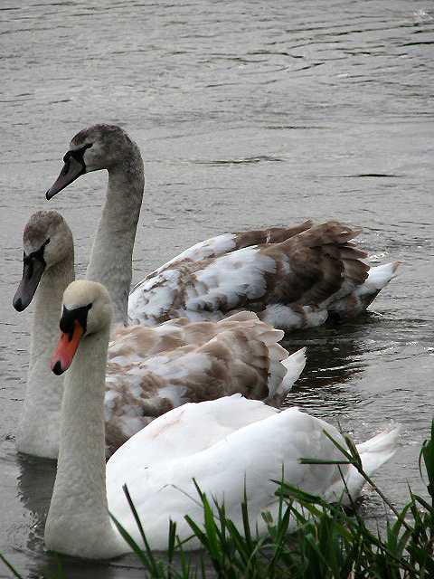 Three swans The two darker coloured animals are last year's cygnets; they are fully grown and soon their plumage will be as white as their parents'.